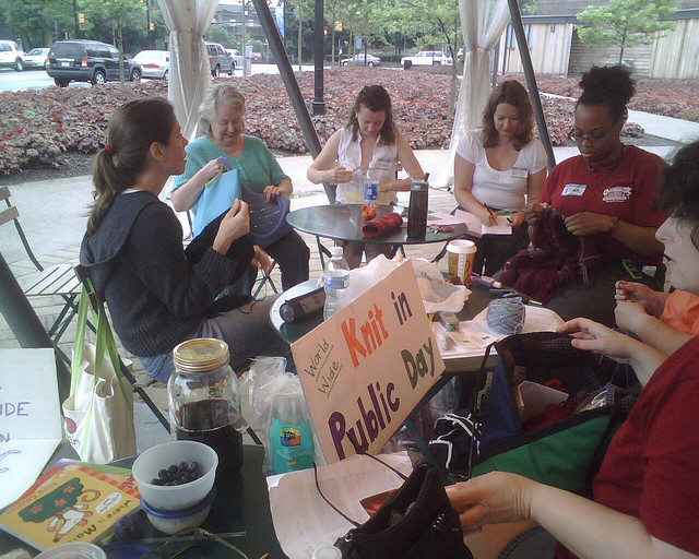 Participants in the 2008 World Wide Knit in Public Day in Schenley Plaza, Pittsburgh. Many of the knitters found out about this event from the new online community for knitters .